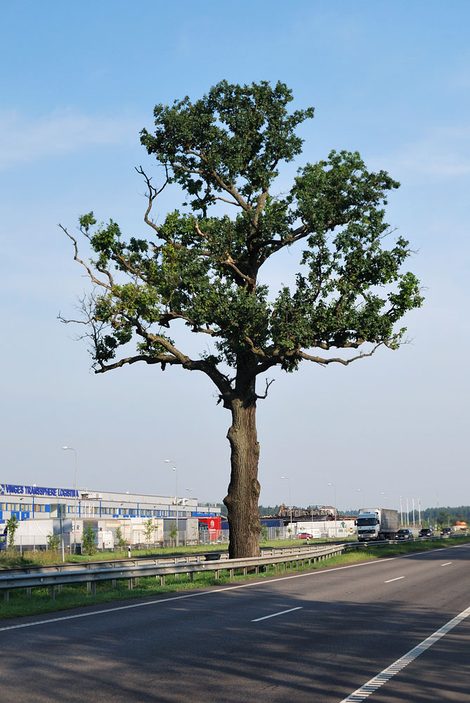 Rykantai Oak, Lithuania